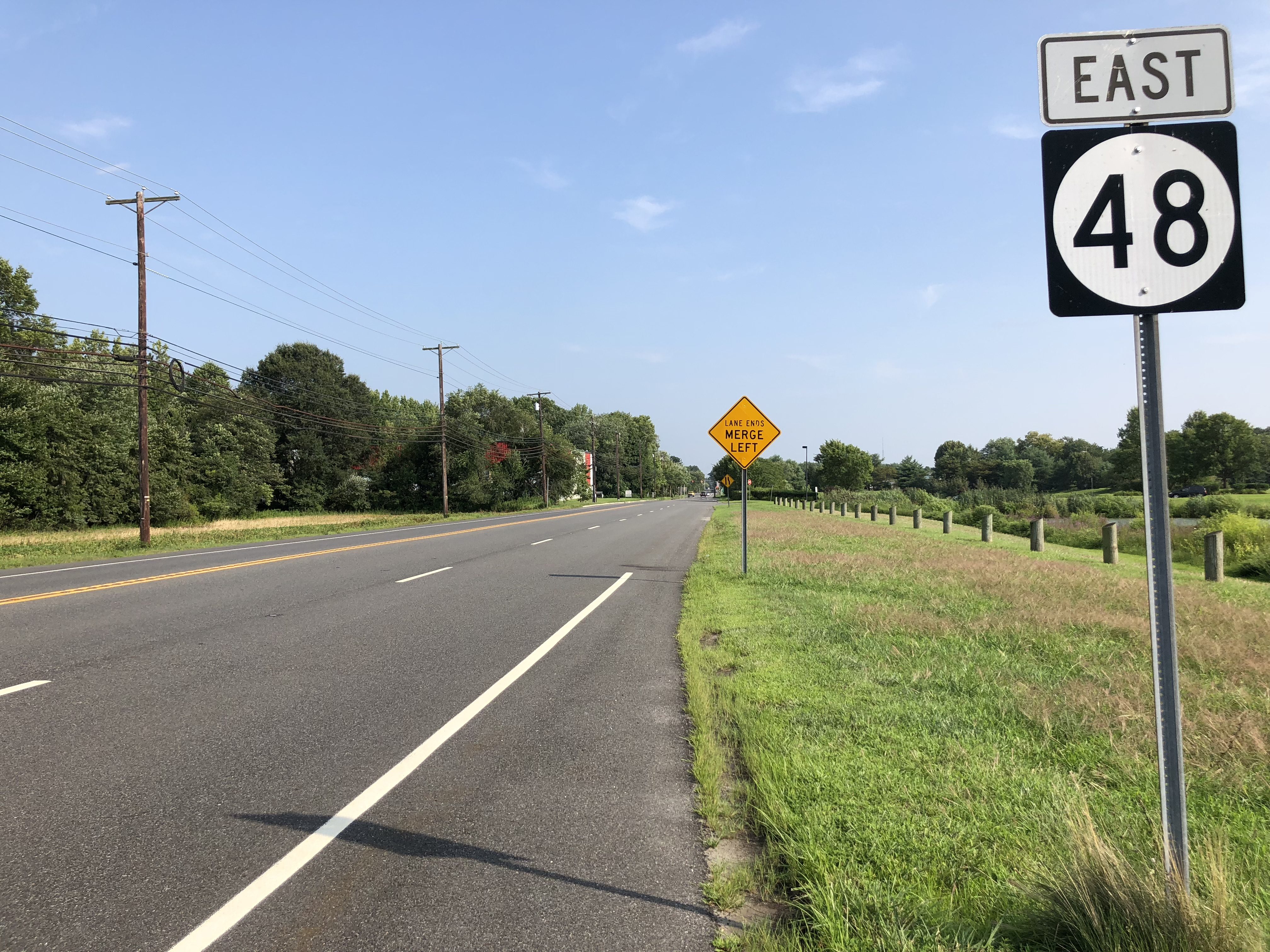 View east along New Jersey State Route 48 (Harding Highway) at Central School House Road in Carneys Point Township, Salem County, New Jersey